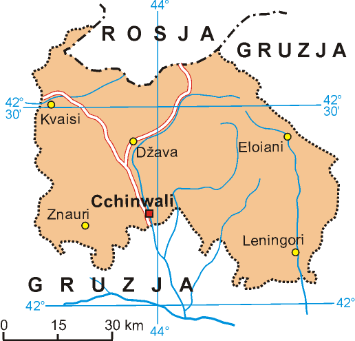 Outline map of South Ossetia